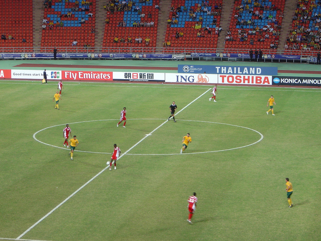 Australia V Oman during the match. Final result 1:1